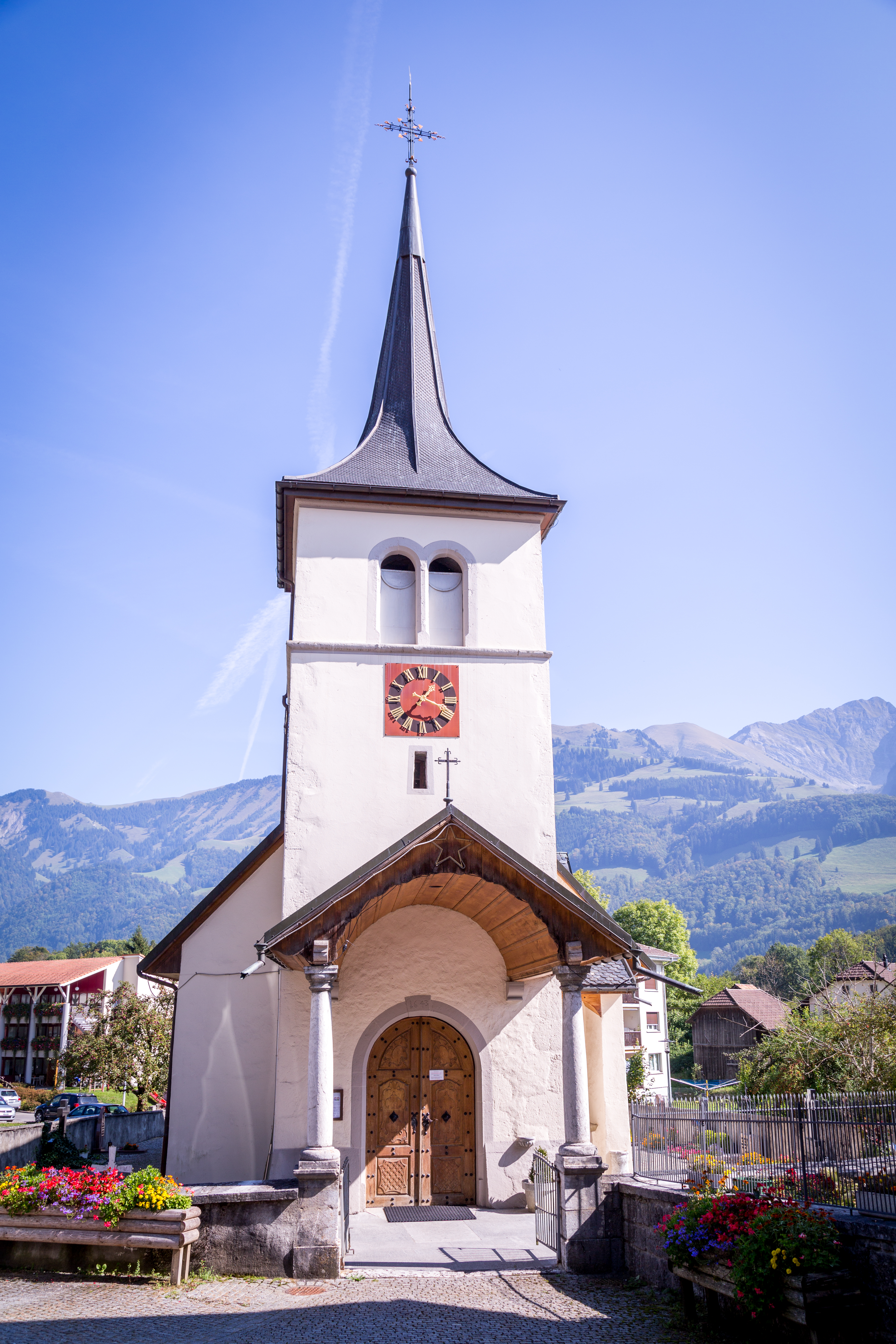 Église Saints-Simon-et-Jude